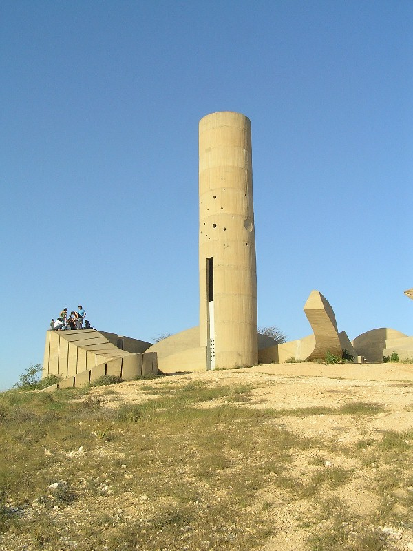 "Monument to the Negev Brigade" by Dani Karavan photographed by Eman, April 2006